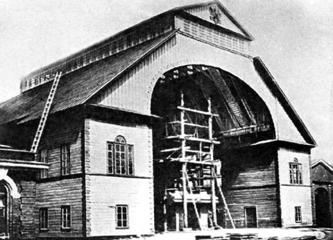 Sisoy Veliky under construction in the shed of the New Admiralty (laid down 1891, launched 1895).